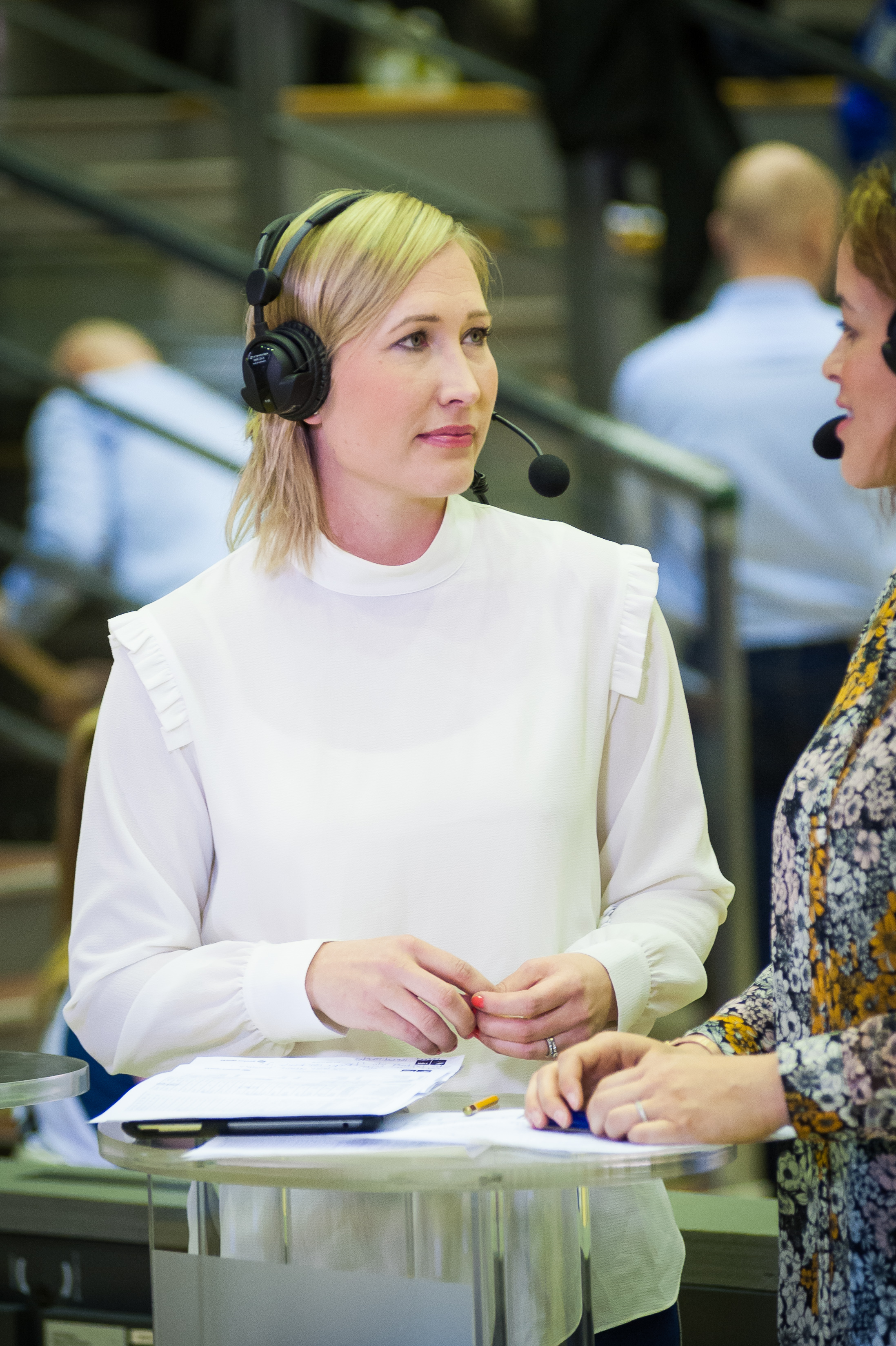 Inka Henelius, the Finnish sports journalists, at Basketball's Finnish women's championship final match between Catz Lappeenranta vs. Peli-Karhut from Kotka in Lappeenranta, Finland. Peli-Karhut clinched the championship 3–2 by winning 69–56. The loss was Catz' first home loss of the season. The championship was the fourth ever for Peli-Karhut while Catz had won it six times, all during the last eight seasons.